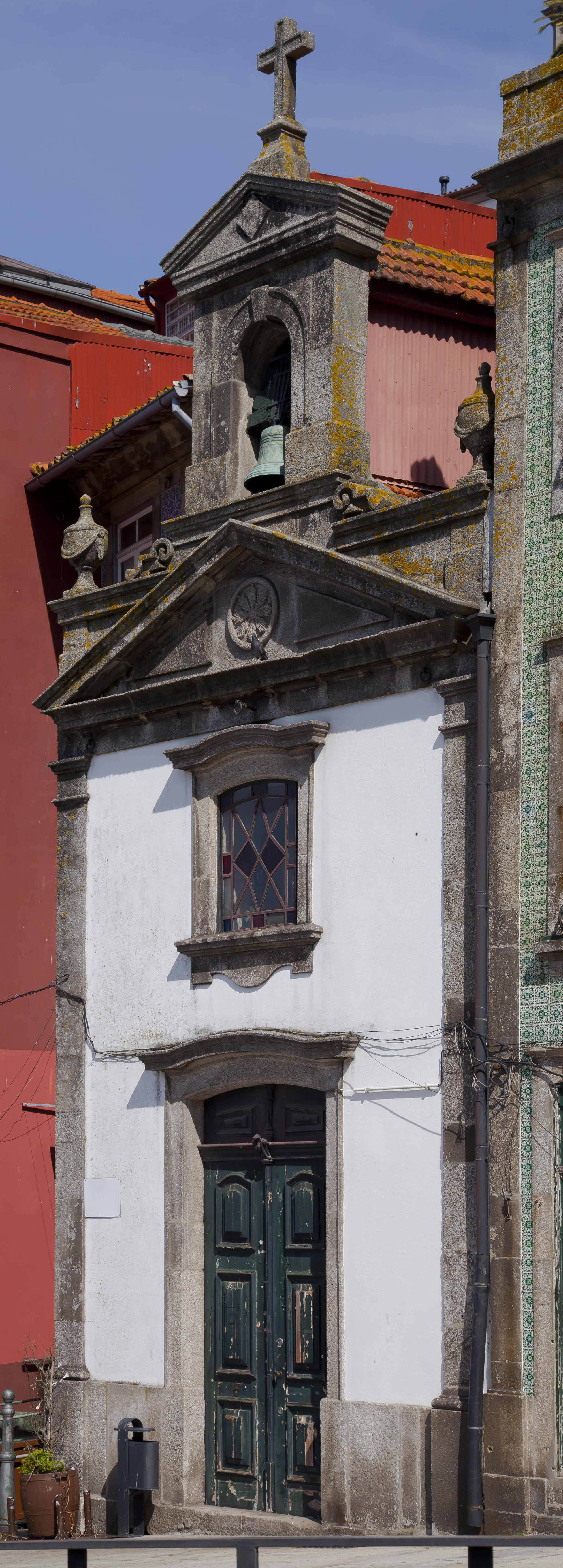 Capela da Lada, Cais da Ribeira, Oporto, Portugal